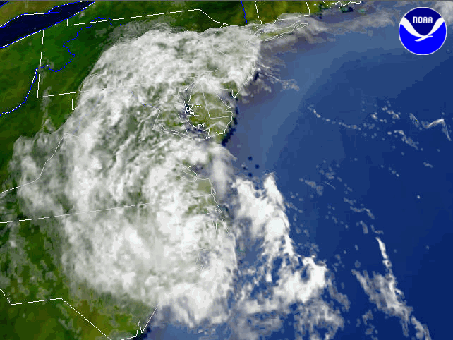 Tropical Storm Allison over North Carolina in June of 2001